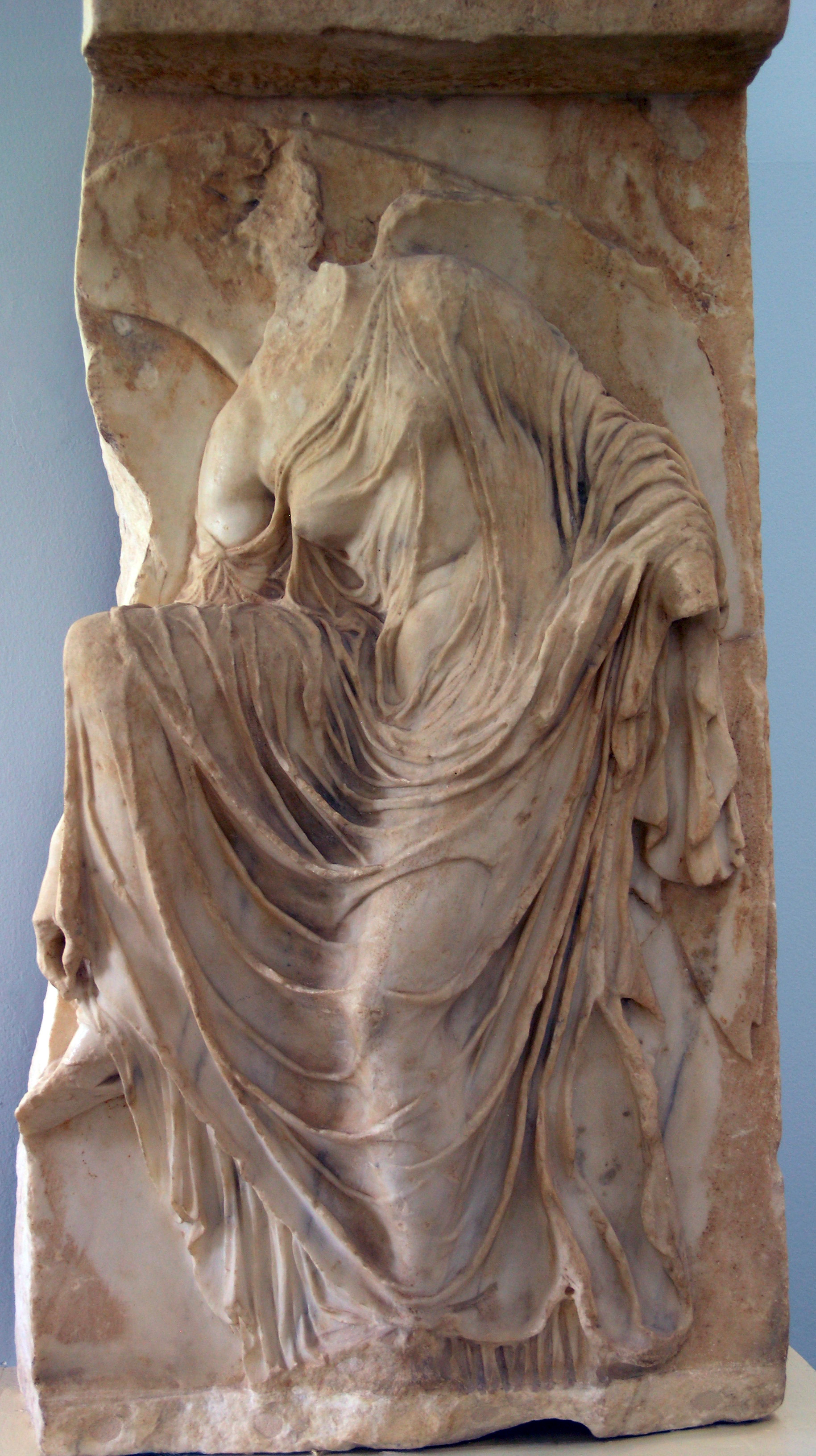 Nike with the sandal. Relief from the temple of Athena Nike. ca 420-410 BC